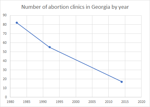 Number of abortion clinics in Georgia by year. Created using data linked on .